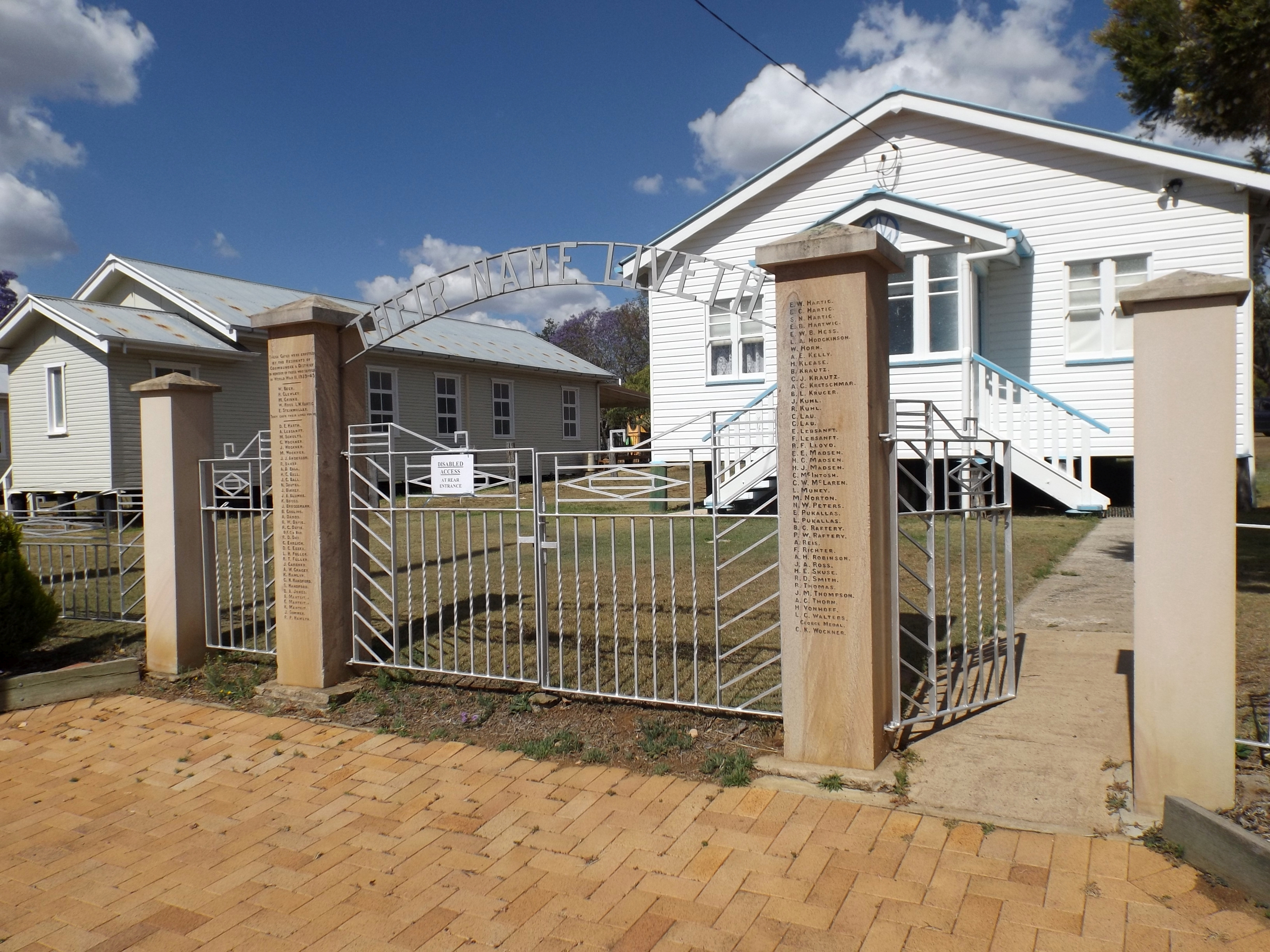 Photo of the Goombungee War Memorial in front of the Country Womens' Association at Goombungee in the Toowoomba Regional local government area of the Darling Downs in Queensland, Australia.